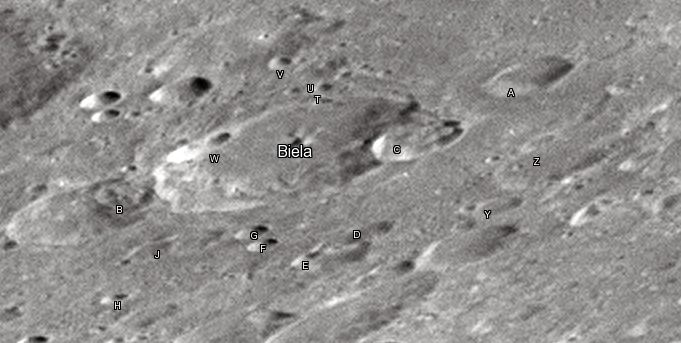 Biela lunar crater as seen from Earth with satellite craters labeled